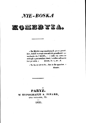 Cover of the drama The Undivine Comedy (1835 edition)